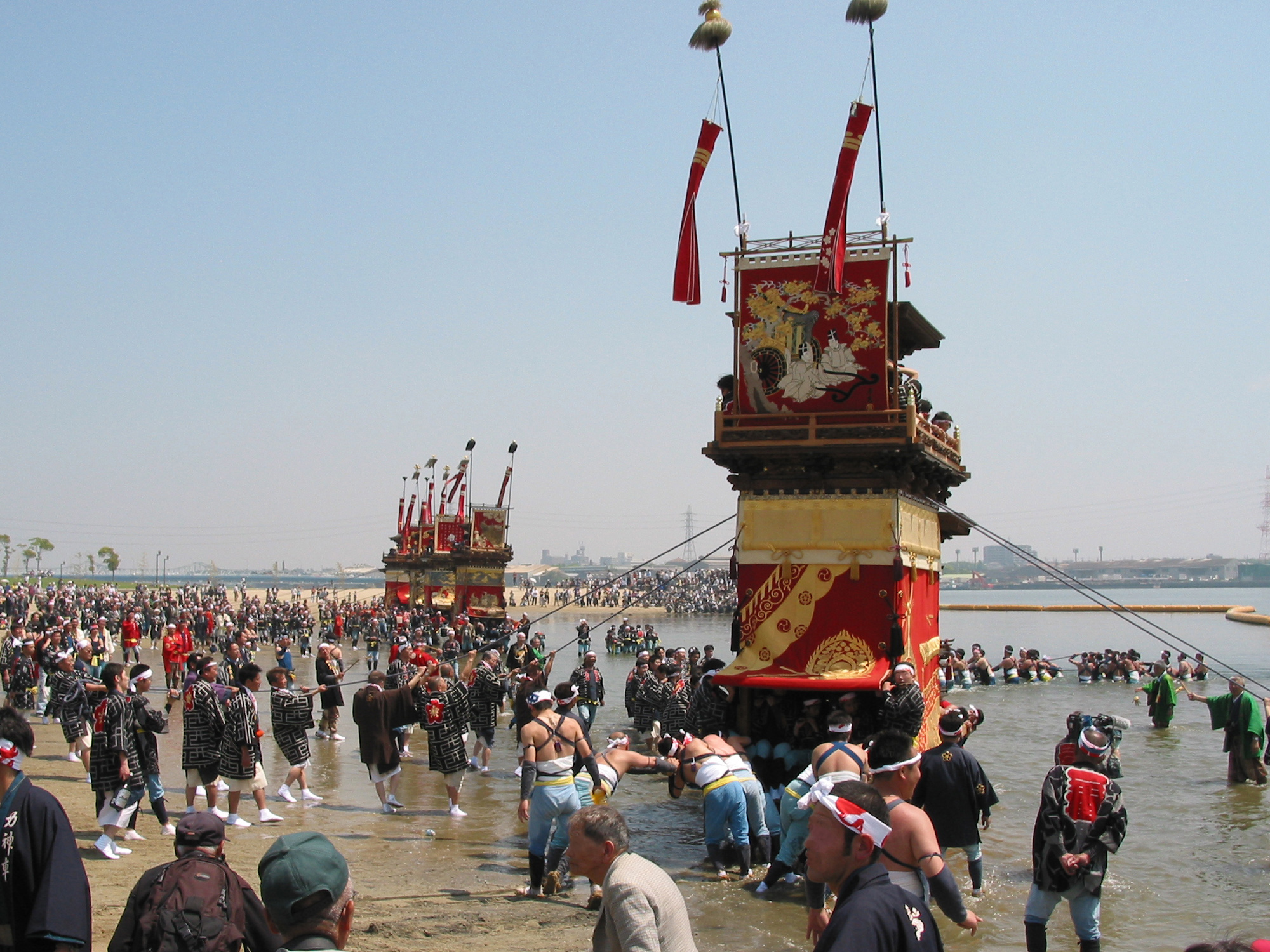 Kamezaki Shiohi Matsuri on the beach. The Kaō-Guruma float of Nishi-Gumi 亀崎潮干祭の海浜曳き下ろし。 西組花王車 愛知県半田市の亀崎海浜緑地で撮影